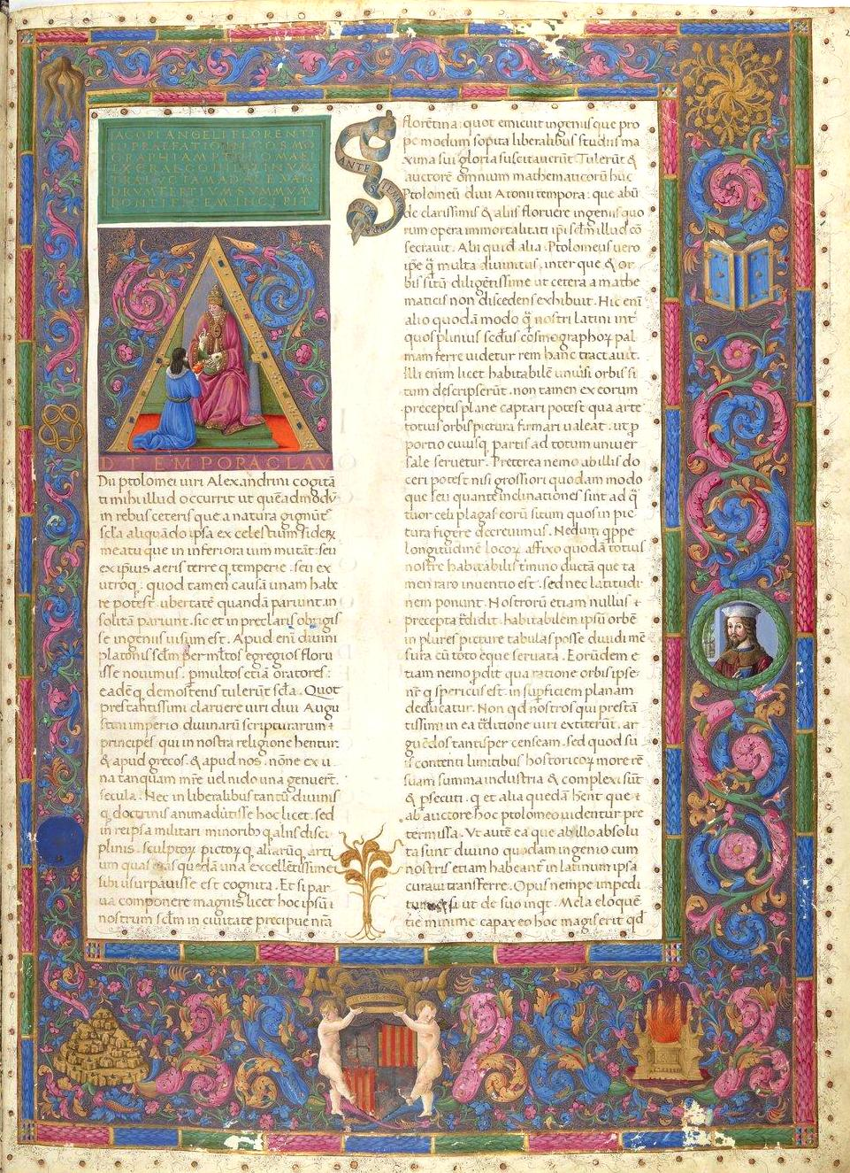 First page of a Catalan-Aragonese manuscript of Ptolemy